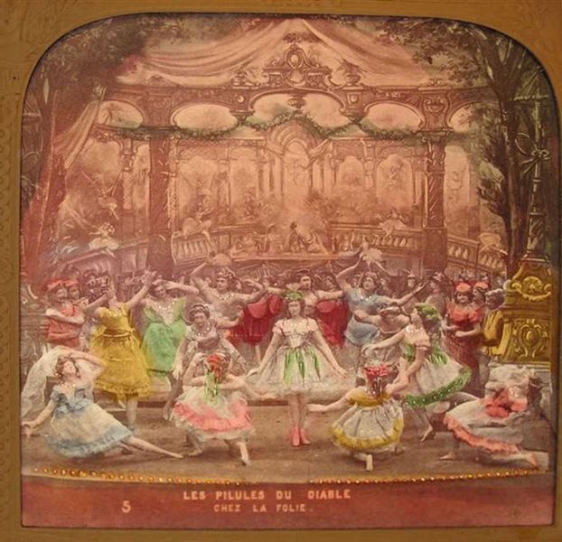 Hand-coloured stereoscope image, circa 1870, of a scene from the popular French féerie (fairy play) Les Pilules du diable.